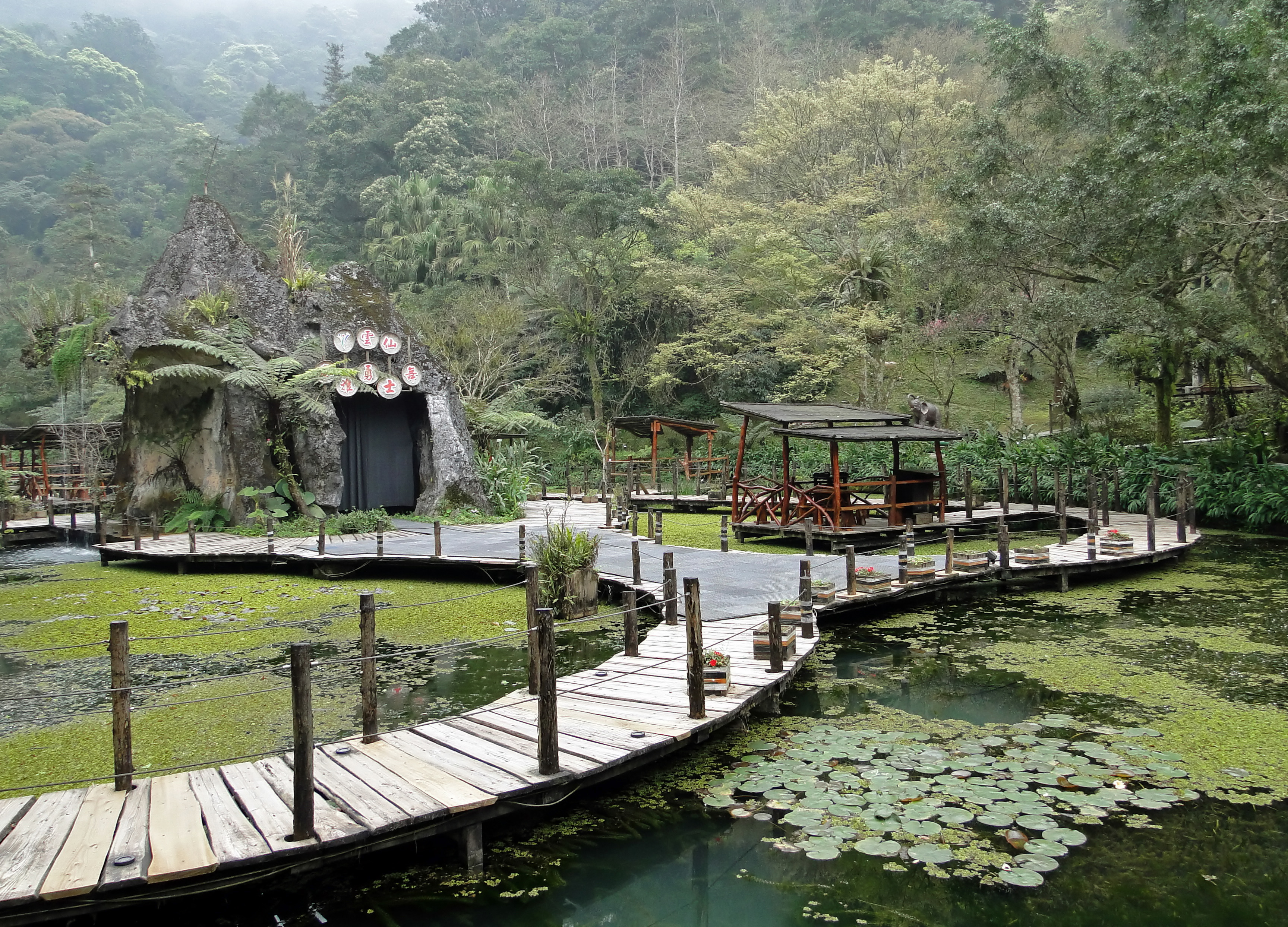 View of Yun Hsien Resort in Wulai, Taiwan